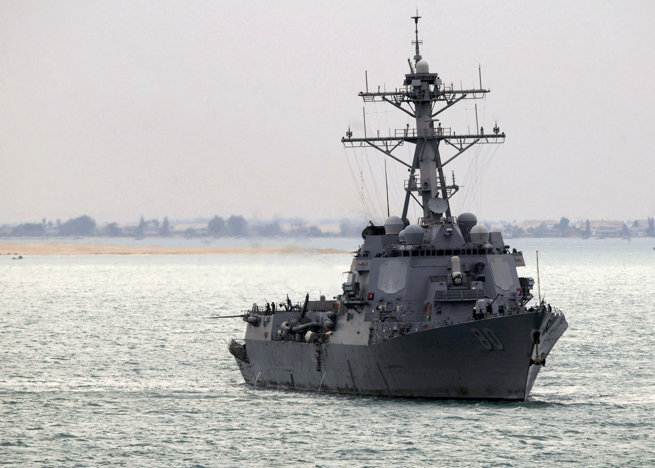 SUEZ CANAL (Feb. 27, 2009) The guided-missile destroyer USS Roosevelt (DDG 80) transits the Suez Canal. Roosevelt is deployed as part of the Iwo Jima Amphibious Ready Group supporting maritime security operations in the U.S. 5th and 6th Fleet areas of responsibility. (U.S. Navy photo by Mass Communication Specialist 2nd Class Katrina Parker/Released)